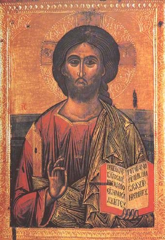 Dobarsko Christ Royal Christ Icon c. 1614